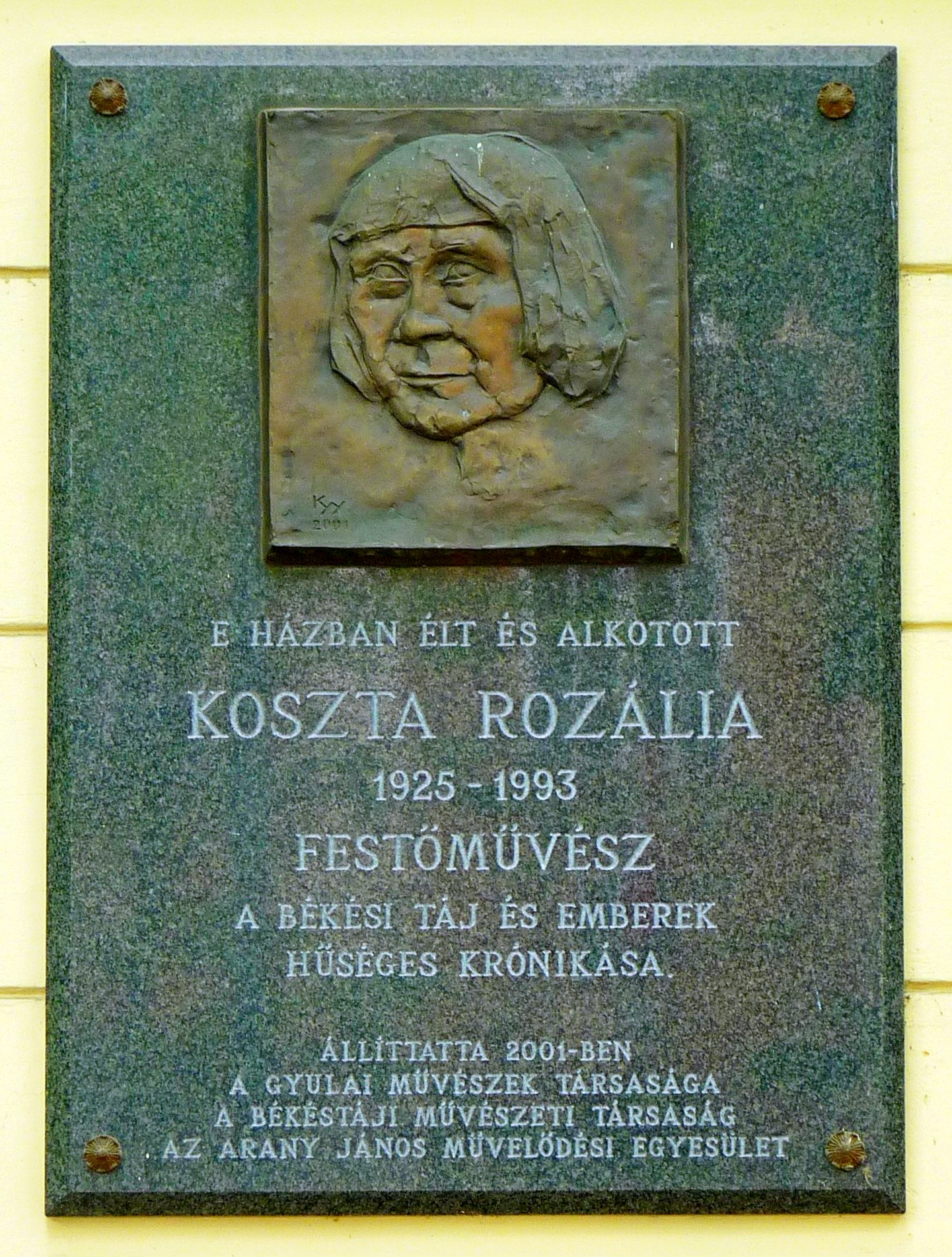 Commemorative plaque to Mrs. Rozália Koszta (1925–1993) Hungarian painter, affixed on the wall of her former home where she lived and worked. The author of the bronze relief is Mr. György Kiss (2001). (Gyula, Béke Avenue Nr 48)